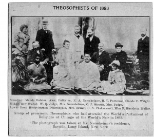 Theosophists of 1893 - includes Annie Besant and F. Henrietta Muller on front row